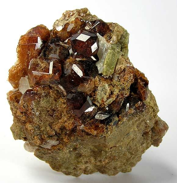 Andradite Locality: Garnet Hill, Calaveras County, California, USA (Locality at ) Size: 7.4 x 5.7 x 3.4 cm. A cluster of California garnets, to 1 cm, with a luster so fine they almost look wet! They have good transparency, and are a deep brandy to coffee color.